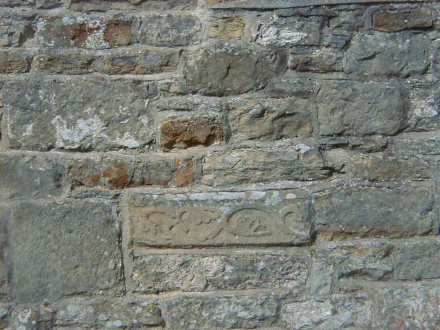 I took this photograph. Detail of carved stone used in the exterior walls suggesting the presence of an earlier building on the site. St John the Baptist's Church Stanwick